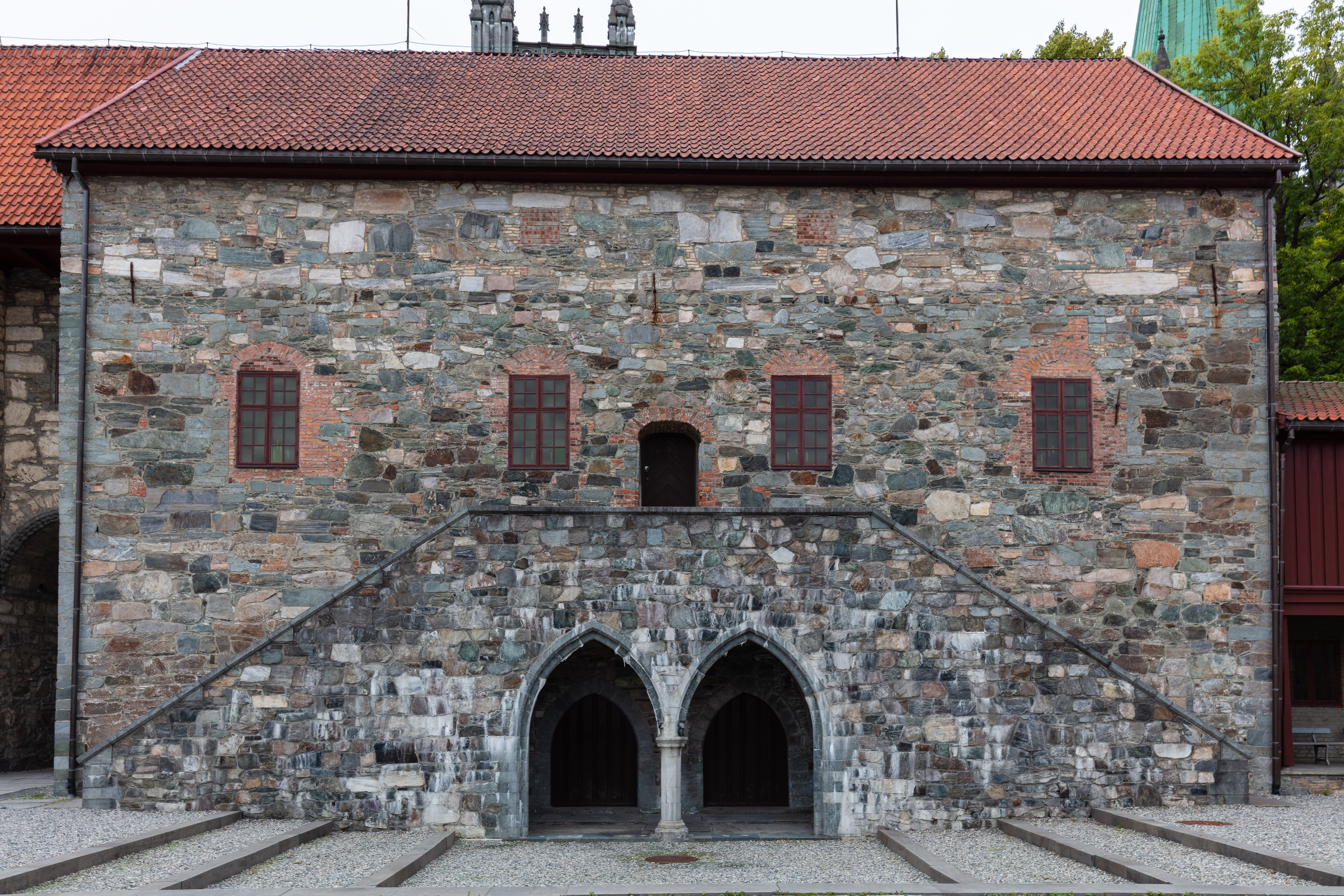 Archbishop's Palace, Trondheim, Norway